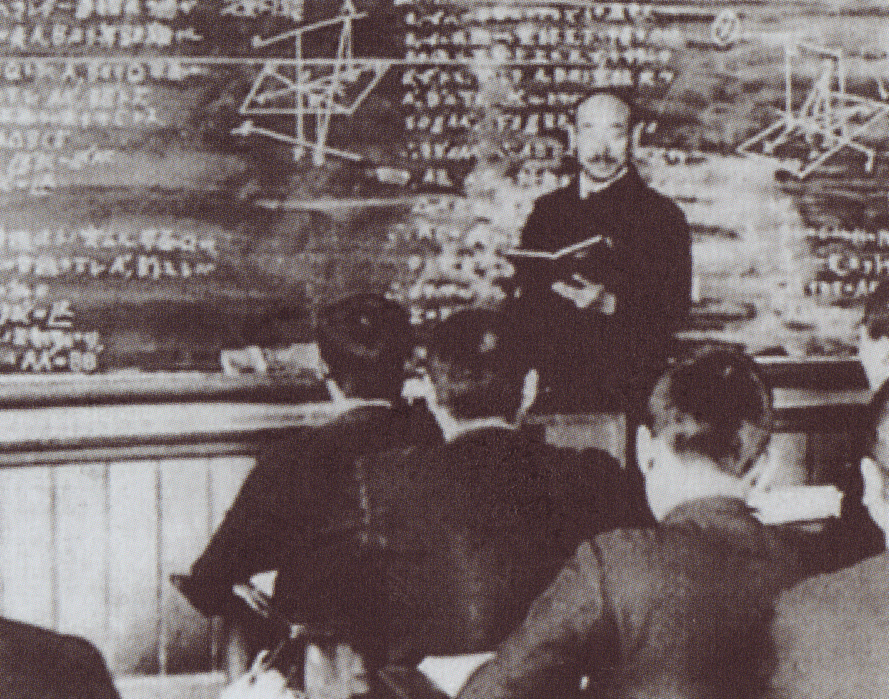 Aomori-Ken Shihan Gakko in Aomori, Aomori pref., Japan.